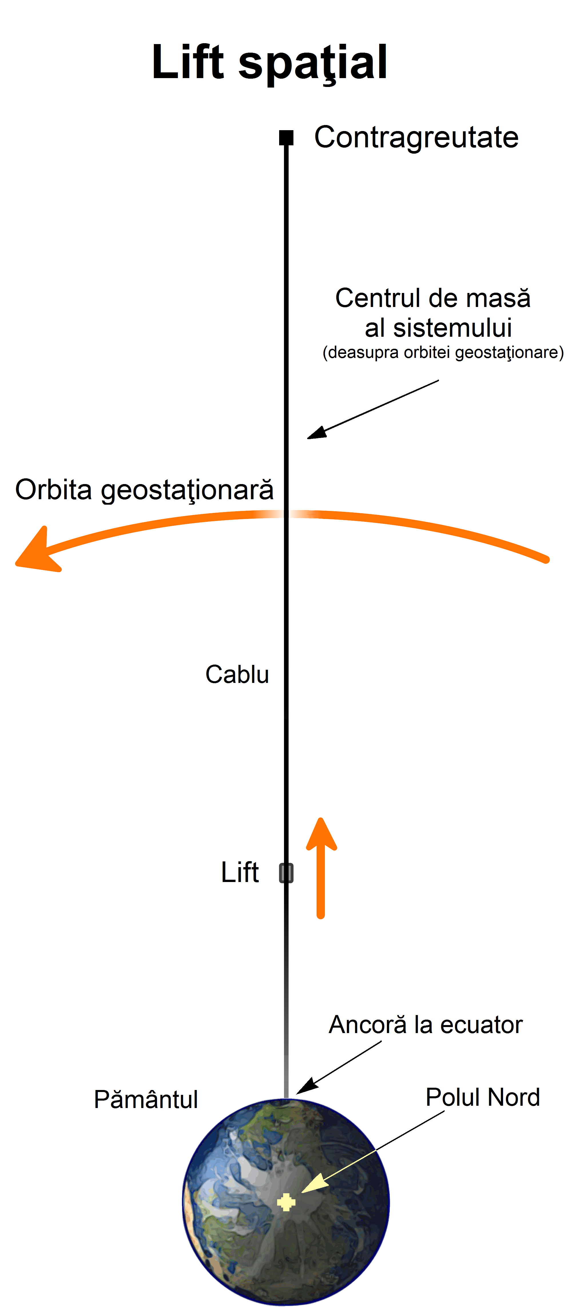 A space elevator for Earth would consist of a cable anchored to the Earth's equator, reaching into space. By attaching a counterweight at the end (or by further extending the cable upward for the same purpose), the center of mass is kept well above the level of geostationary orbit. Inertia ensures that the cable remains stretched taut, countering the gravitational pull downward. Once above the geostationary level, climbers would have weight in the upward direction as the centrifugal force overpowers gravity. (The diagram is to scale. The height of the counterweight varies by design and a typical, workable height is shown.)